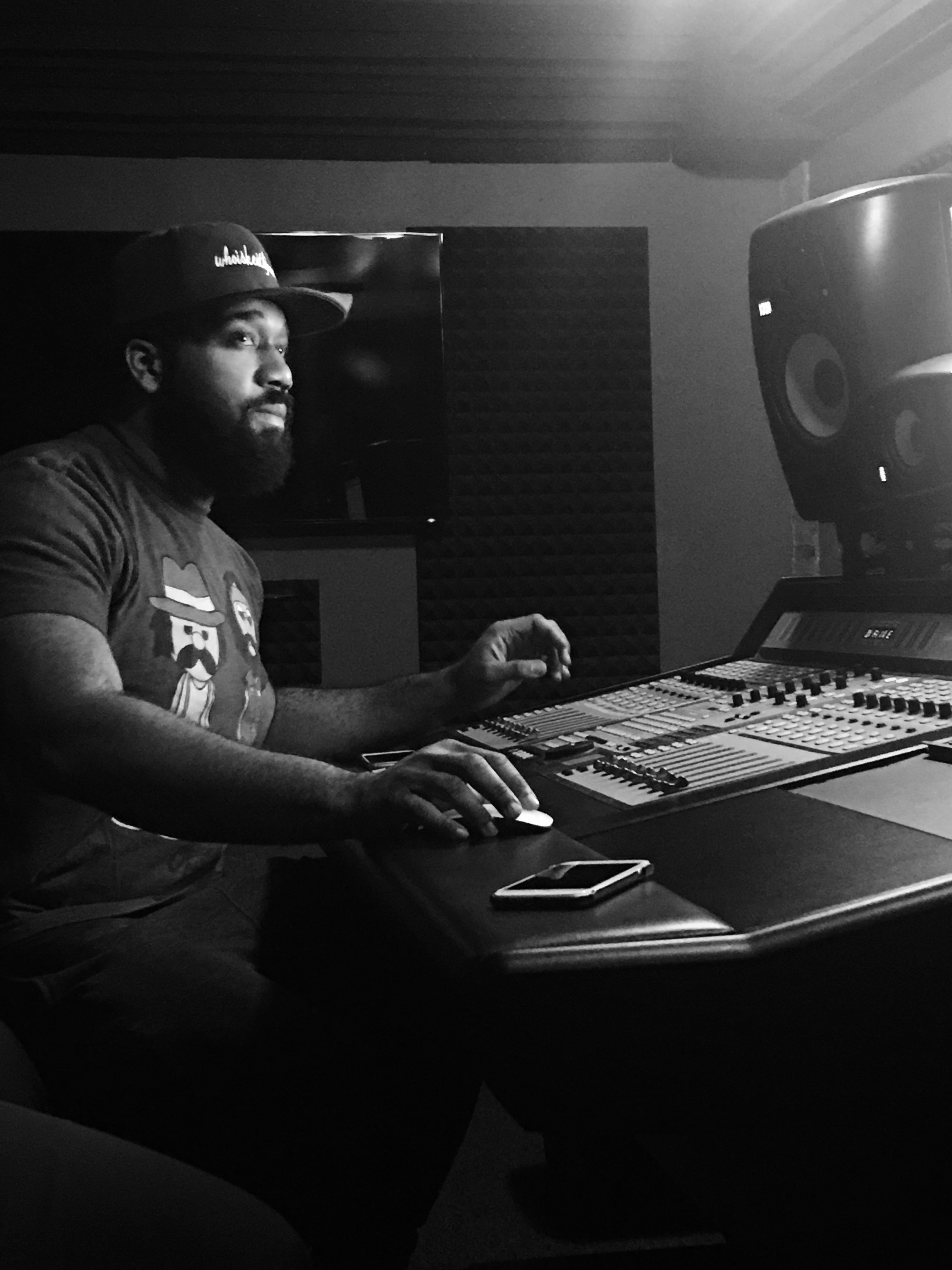 Keith James, September 2016.